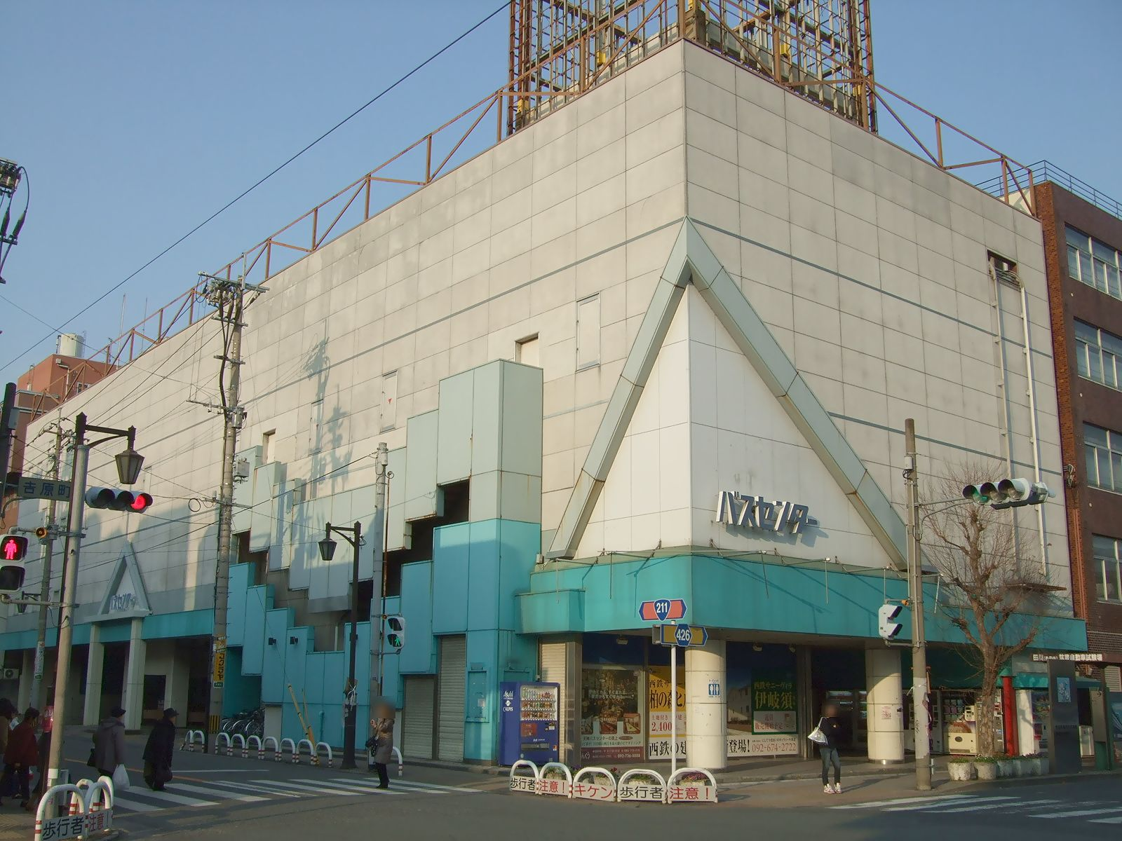 Iizuka Bus Center, operated by Nishitetsu Bus Chikuho, in Iizuka City, Fukuoka Prefecture, Japan